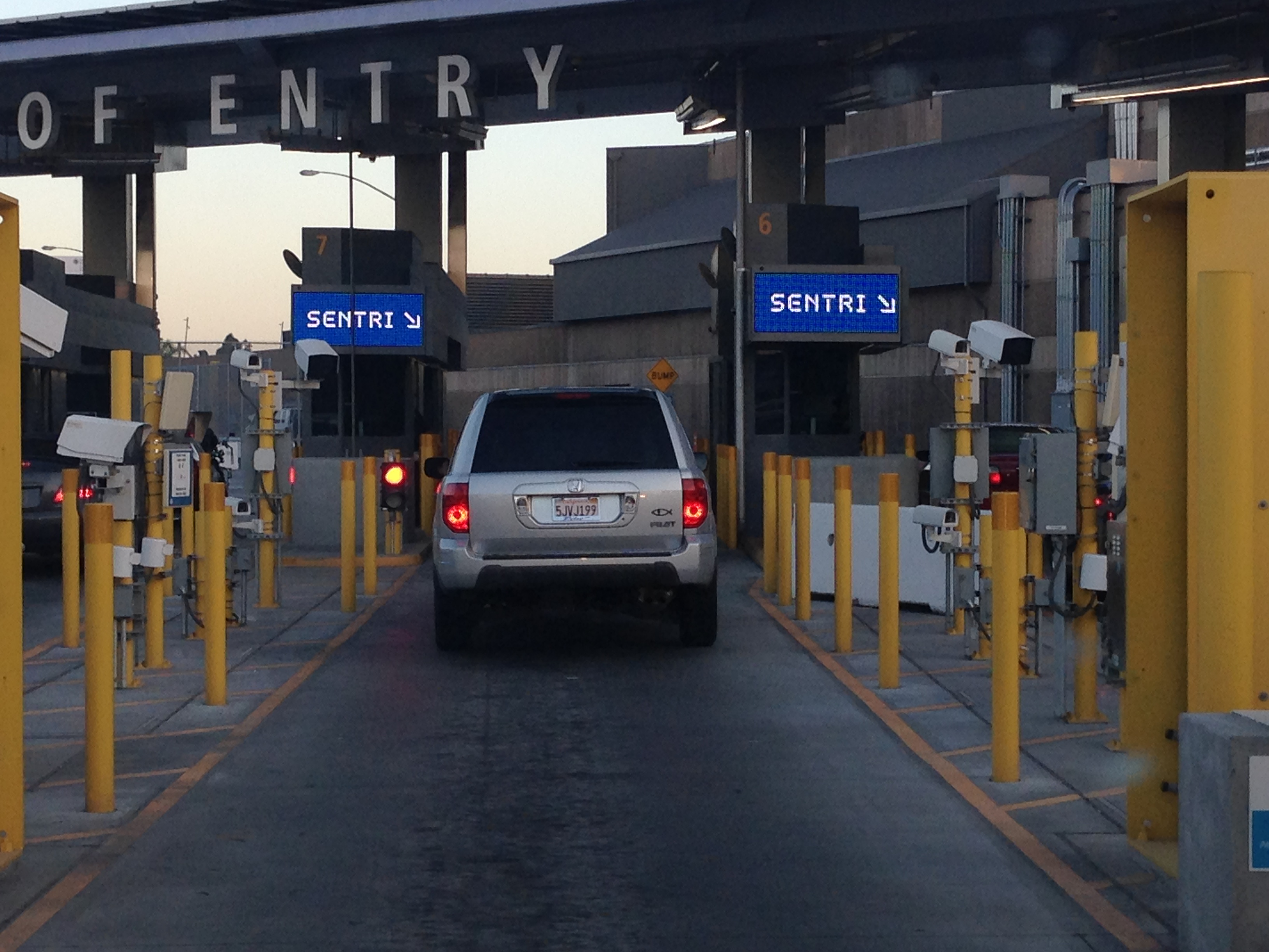 SENTRI lanes at the San Ysidro border crossing location in 2015